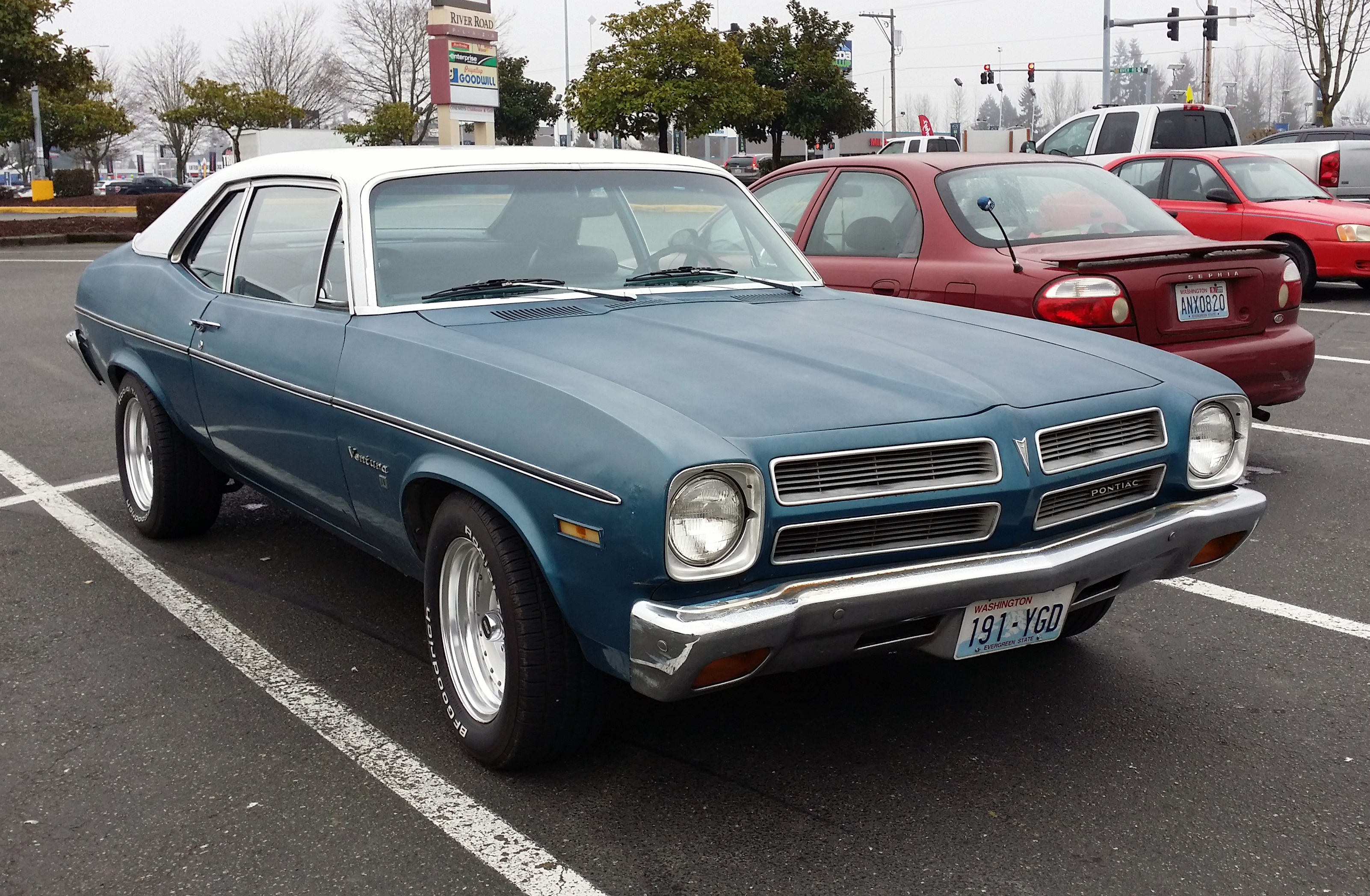 1971 Pontiac Ventura II in Puyallup, WA, USA